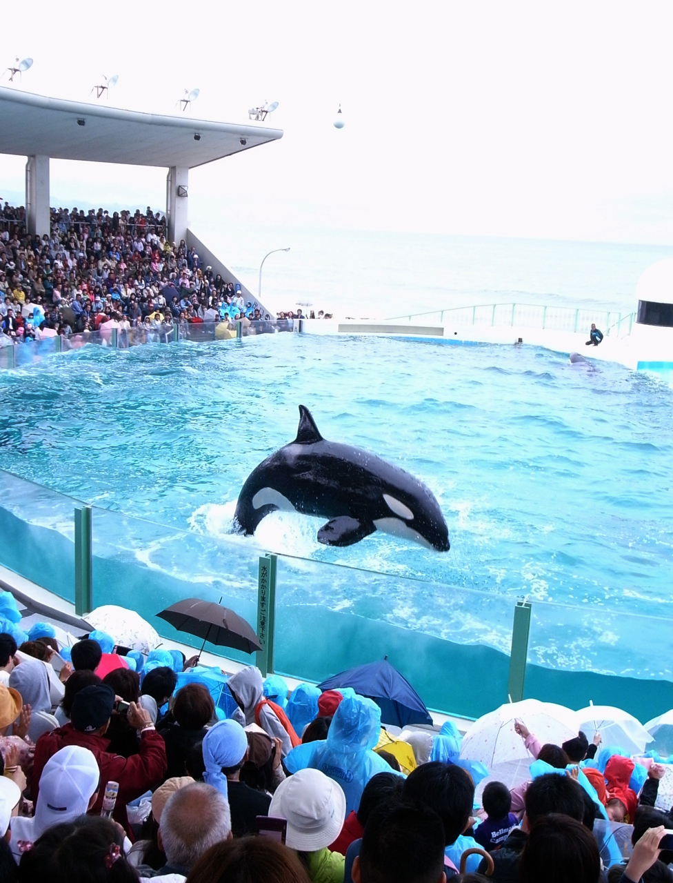 Orcinus orca show in Kamogawa Sea World in Kamogawa, Chiba, Japan.